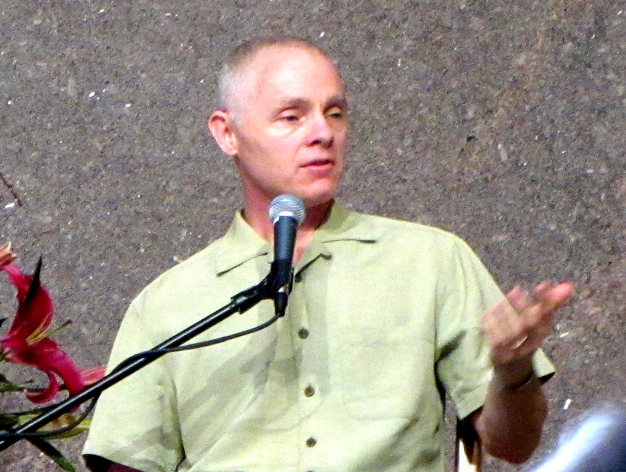 A photo of the American spiritual teacher Adyashanti at a public event.